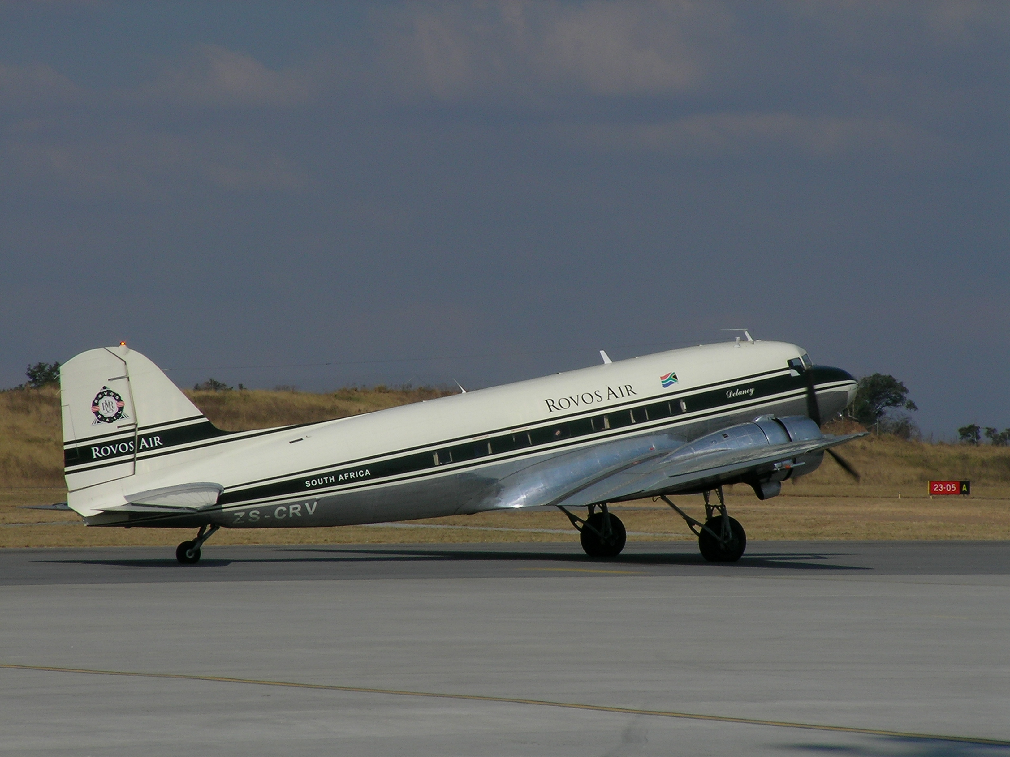 Photographed near Kruger Park, South Africa in June 2006.